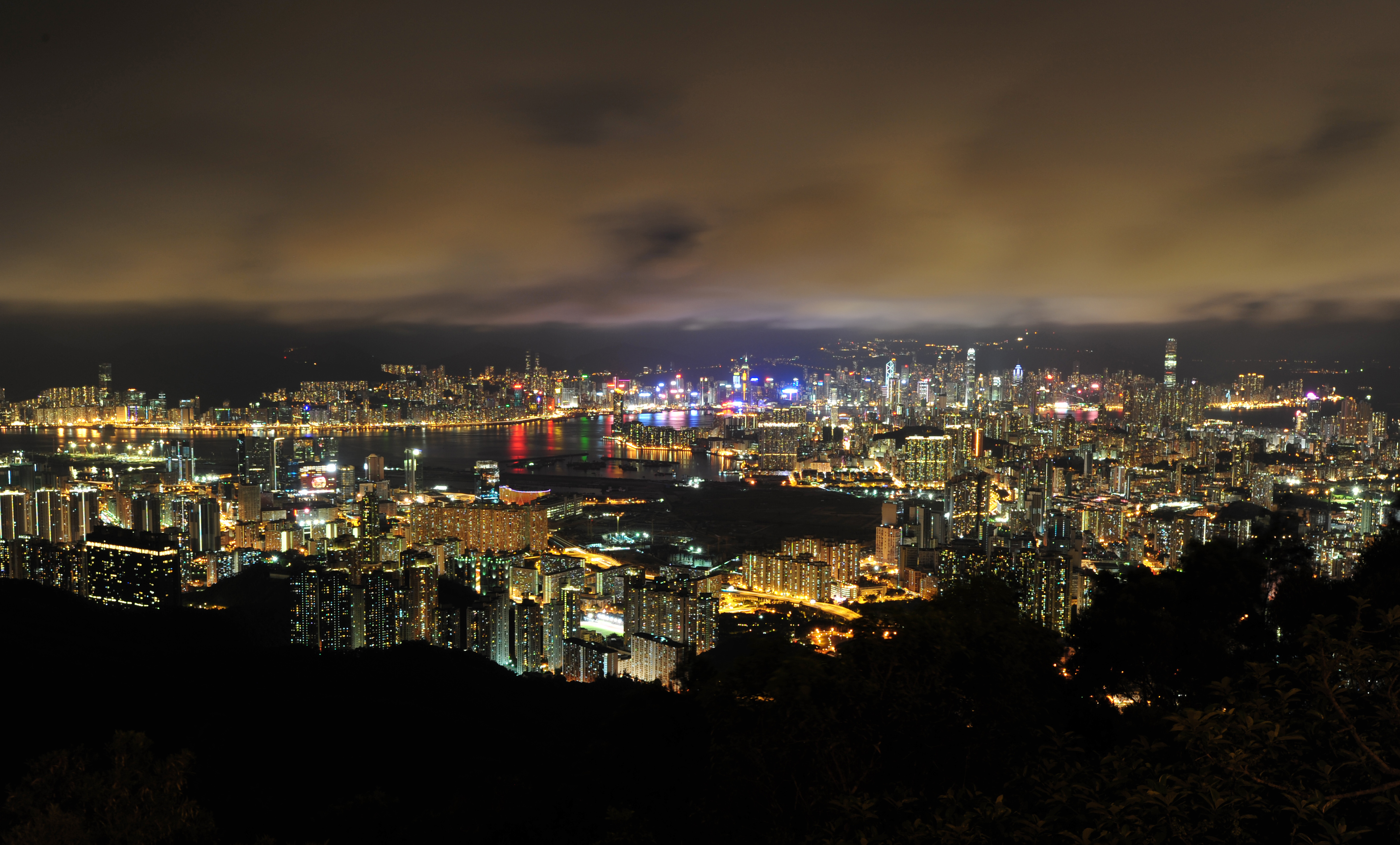 hong kong panorama 2011 night hill shatin